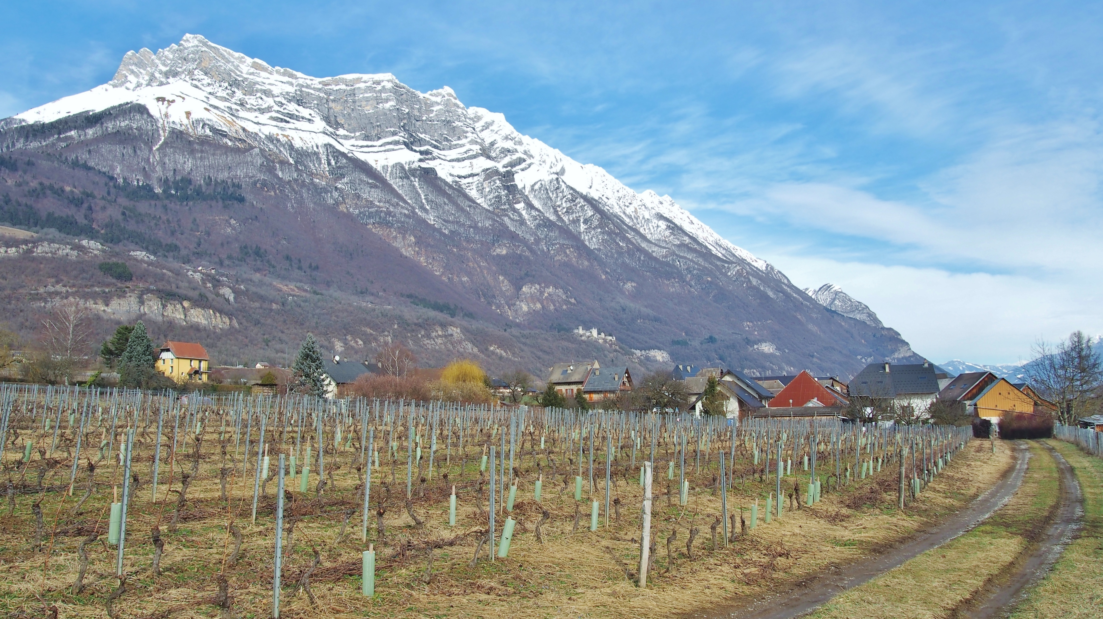 Panoramic sight, in winter, on vineyards of the Combe de Savoie broad valley, of the Pau hamlet and Arclusaz mountain, in Saint-Pierre-d'Albigny between Chambéry and Albertville in Savoie, France.